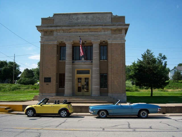 Street view of the Ladora Savings Bank (now the Ladora Bank Bistro), located at 811 Pacific Street (U.S. Route 6) in Ladora, Iowa, United States.